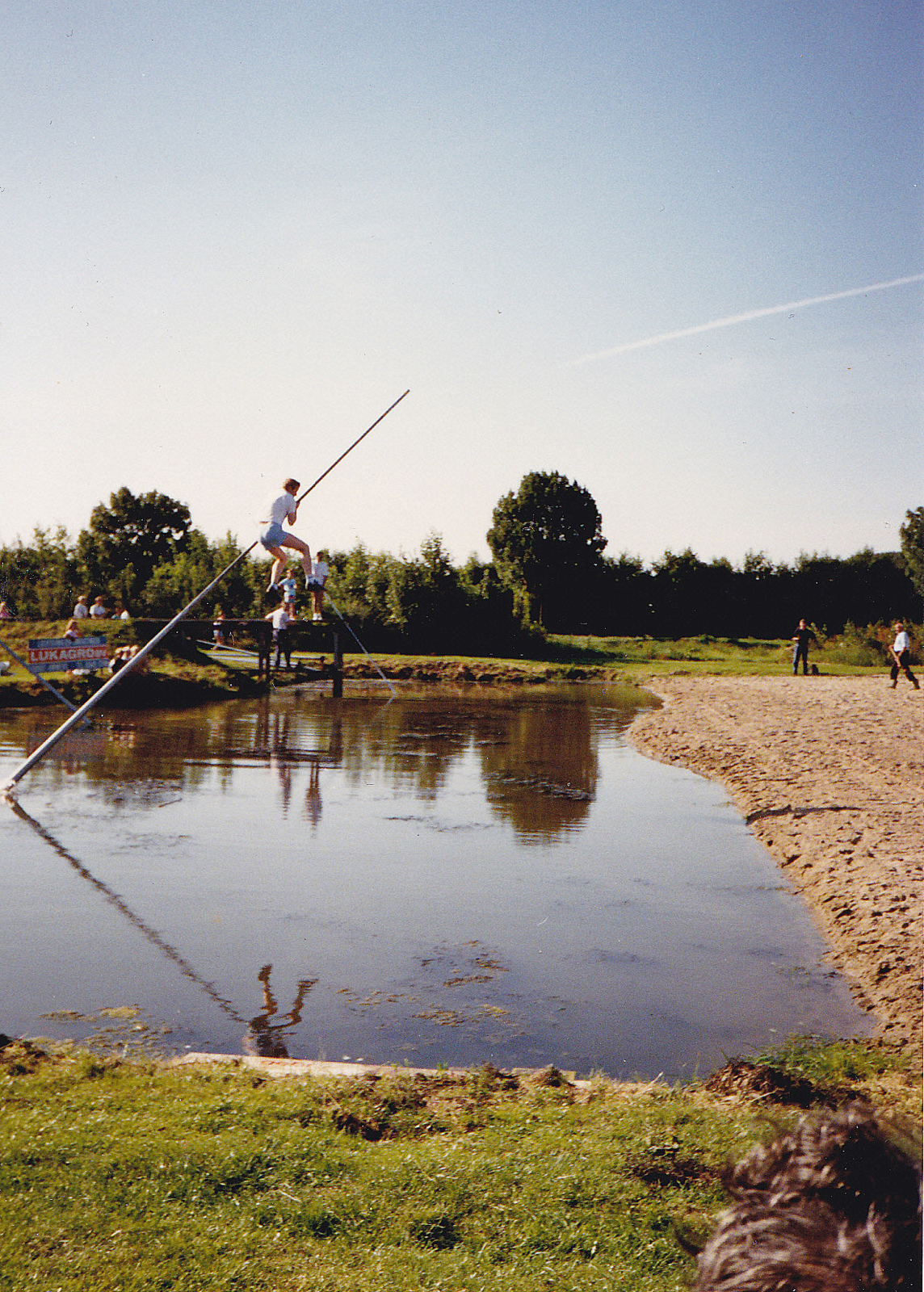 fierljeppen the jumper who falls into the water